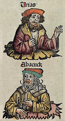 Woodcut from the Nuremberg Chronicle